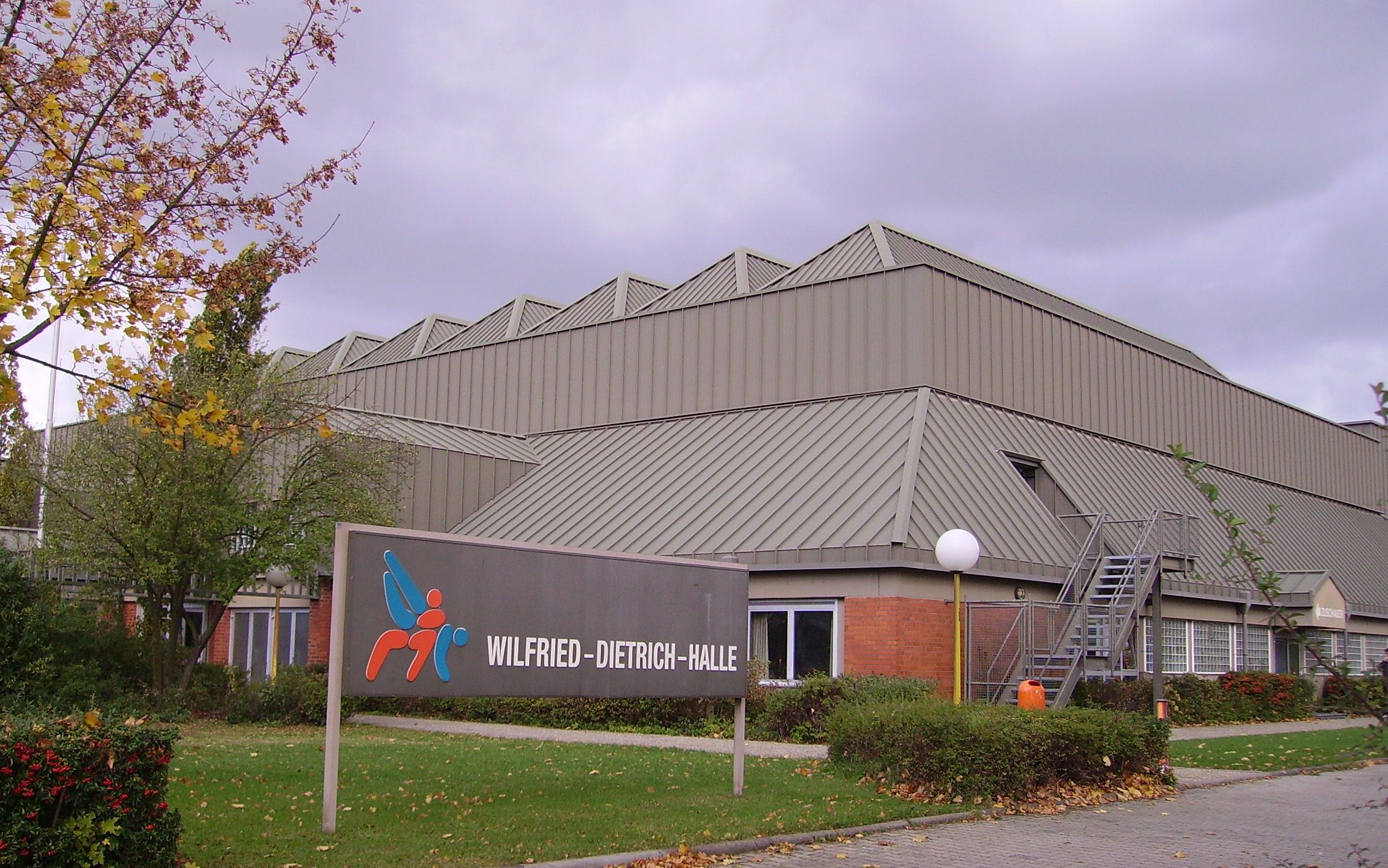 view of Schifferstadt, Germany